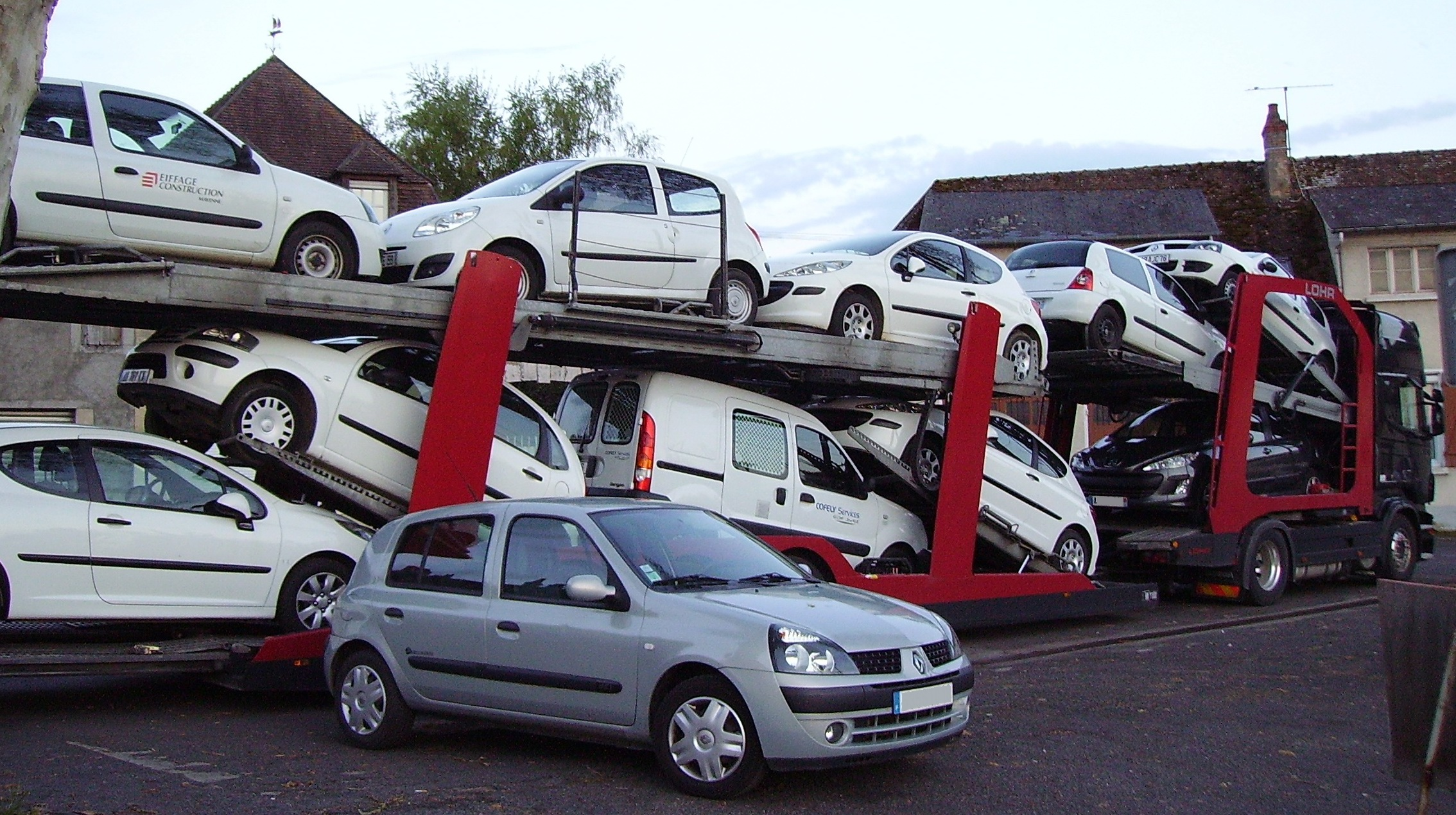 Car transporter: Scania V8 (R Series) truck with a Lohr trailer.